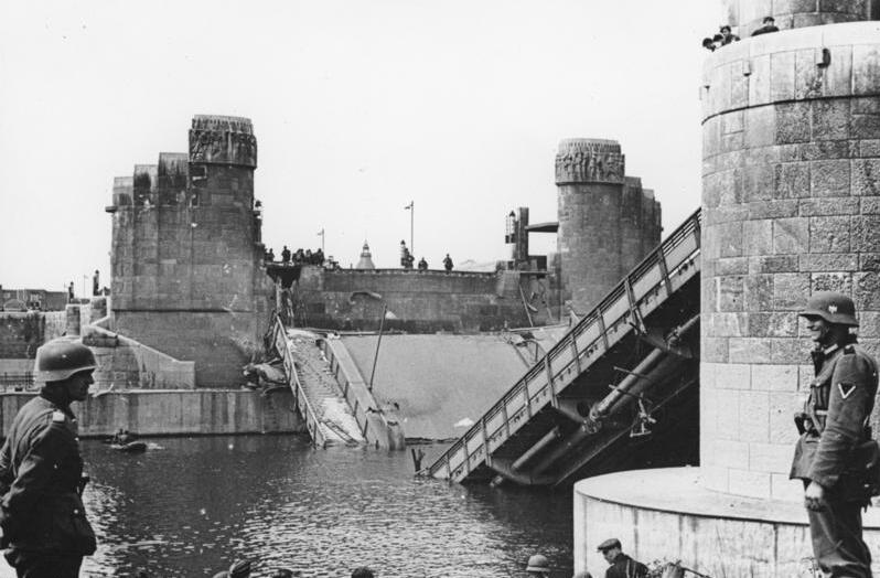 German troops in Maastricht, Holland. German troops are set across the Maas river in pneumatic boats. To the right is the Wilhelmina bridge that was destroyed by the dutch troops in the hopes it would stop the German advance